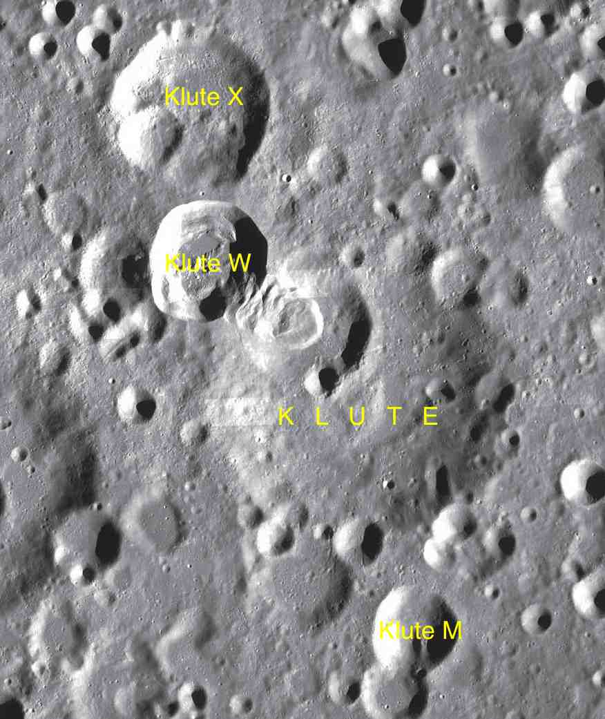 Part of the chart LAC-34 used for the presentation